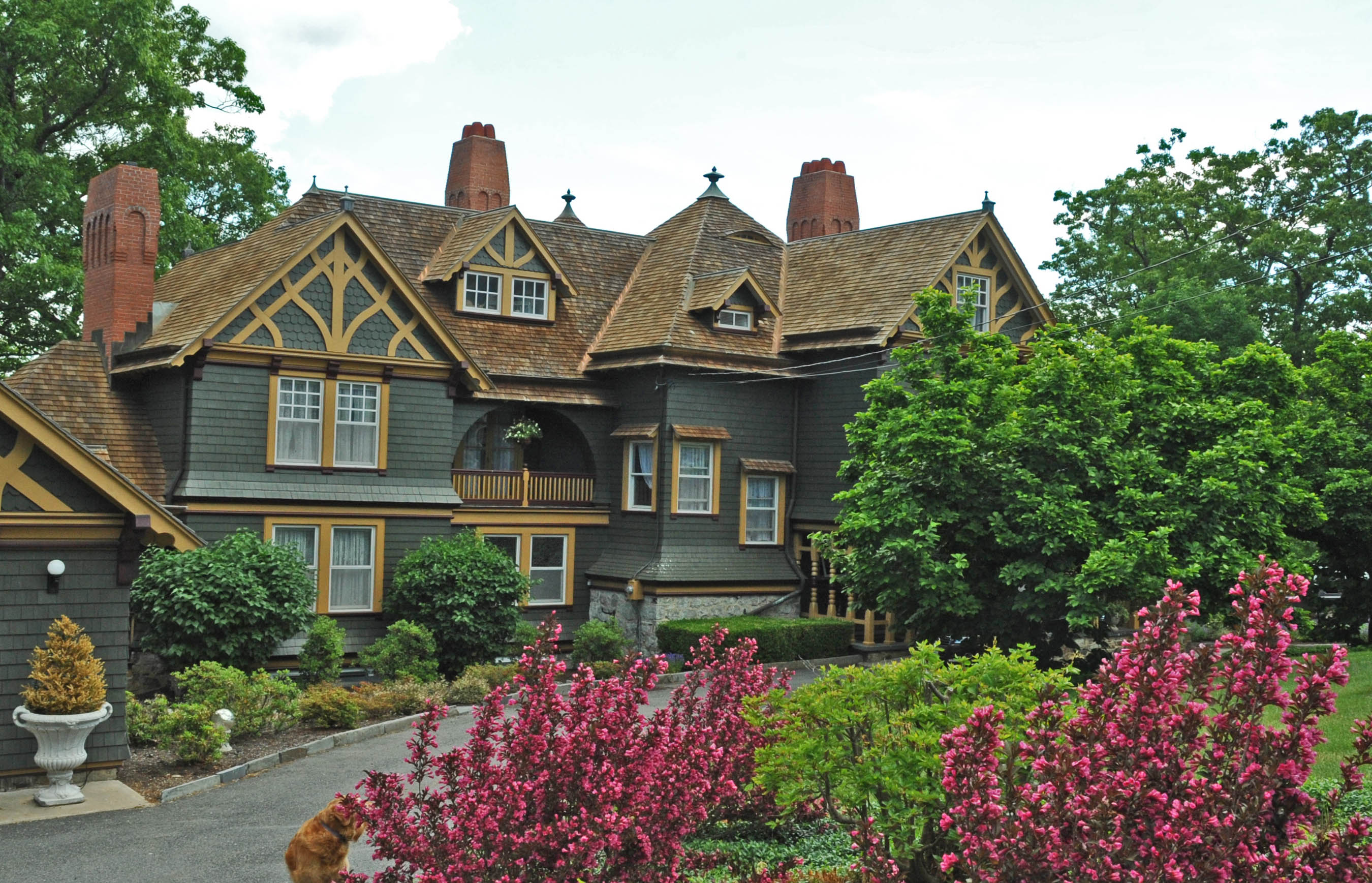 LOTTA CRABTREE HOUSE; NOTED ARCHITECT FRANK FURNESS DESIGNED THIS OSTENTATIOUS SHINGLE/QUEEN ANNE STYLE SUMMER COTTAGE FOR THE ECCENTRIC, CIGAR-SMOKING ACTRESS LOTTA CRABTREE IN 1886. HER PRESENCE HERE ATTRACTED LARGE NUMBERS OF PEOPLE IN THE LAST QUARTER OF THE 19TH CENTURY. THE LOTTA CRABTREE IS WITHOUT QUESTION THE CENTERPIECE OF THIS HISTORIC DISTRICT BUT THE ENTIRE DISTRICT IS REPLETE WITH UPSCALE LAVISH HOMES AND I SHALL SEND ONE ADDITIONAL PICTURE OF A HOME LOCALLY KNOWN AS THE CASTLE